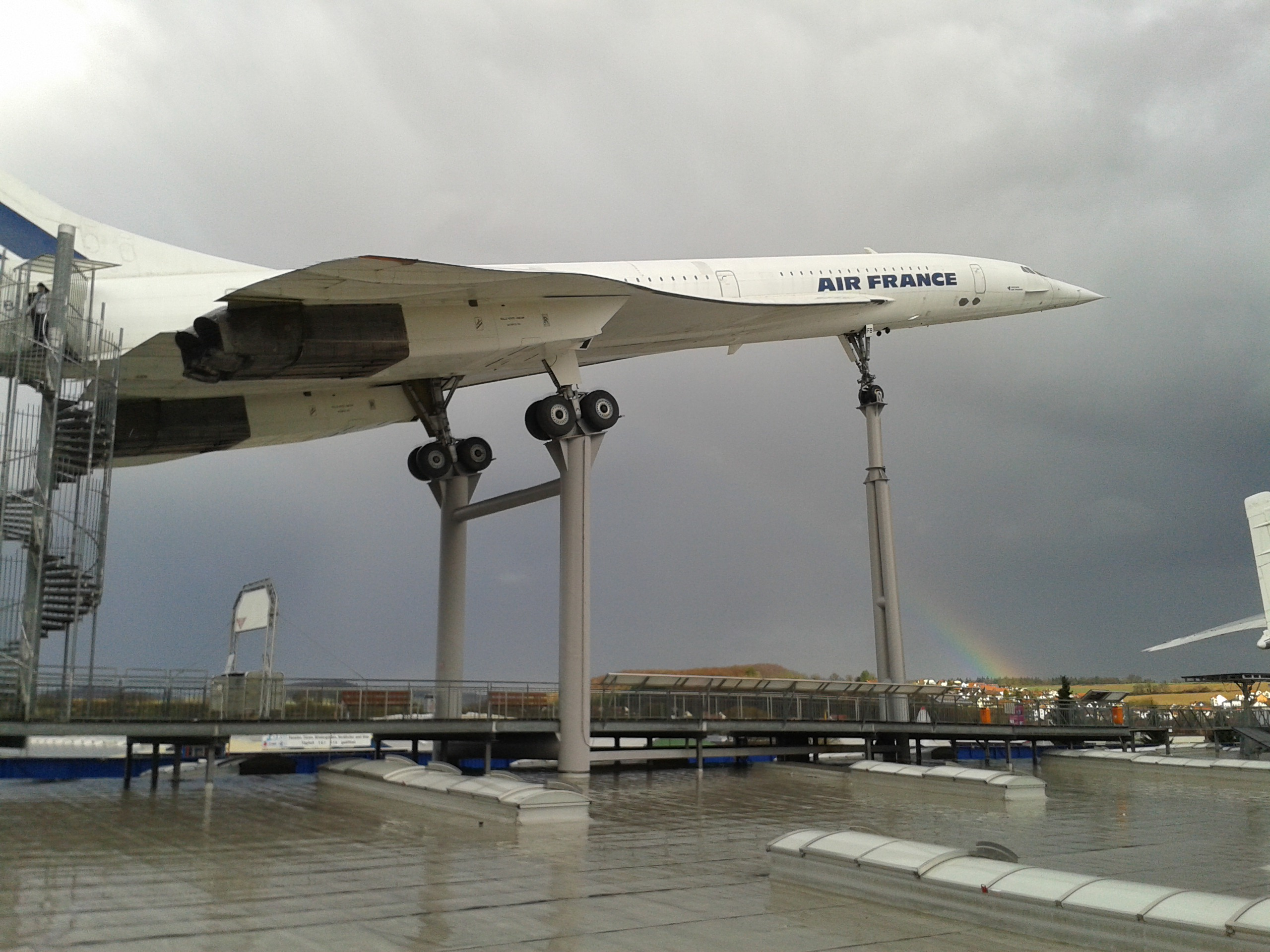 The Concorde on display at Technik Museum Sinsheim in Sinsheim, Germany. It is fully accessible to museum goers (note the stairs in the back).